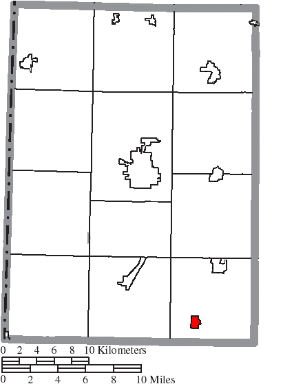 Map of the municipal and township boundaries of Preble County, Ohio, United States, as of the 2000 census, with the location of the village of West Elkton highlighted. Township borders are shown only in unincorporated areas in order to differentiate incorporated and unincorporated areas more clearly.